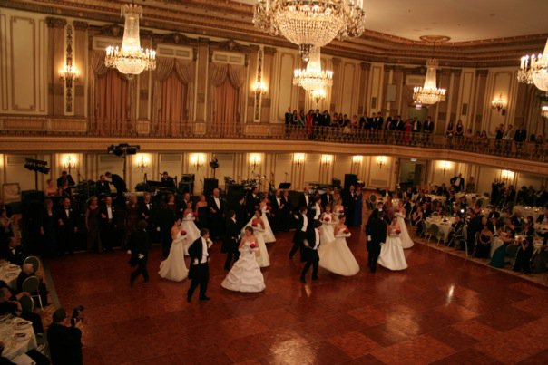 Presentation Waltz from the Ukrainian Medical Association of North America Debutante ball in Chicago.